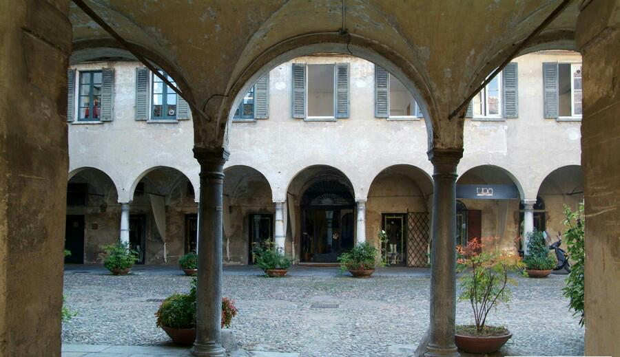 Manor of the noble italian family Biumi.